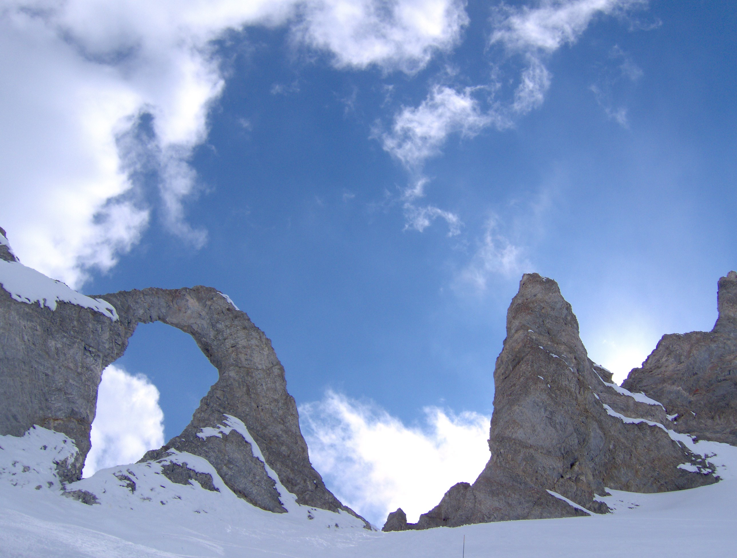 Skiing in the Alpes